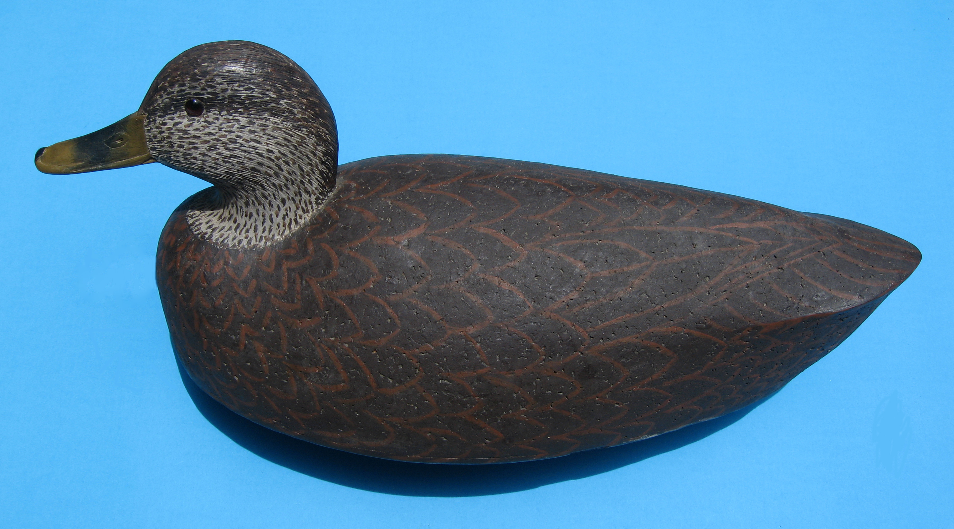 Black duck hunting decoy by Cigar Daisey of Chincoteague Island, Virginia. This decoy was made from cork circa 1997.